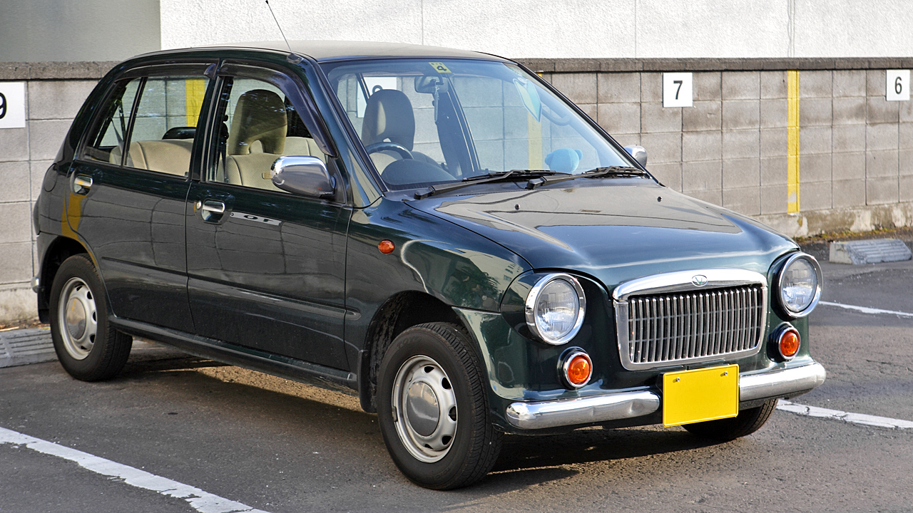 Subaru Vivio Bistro